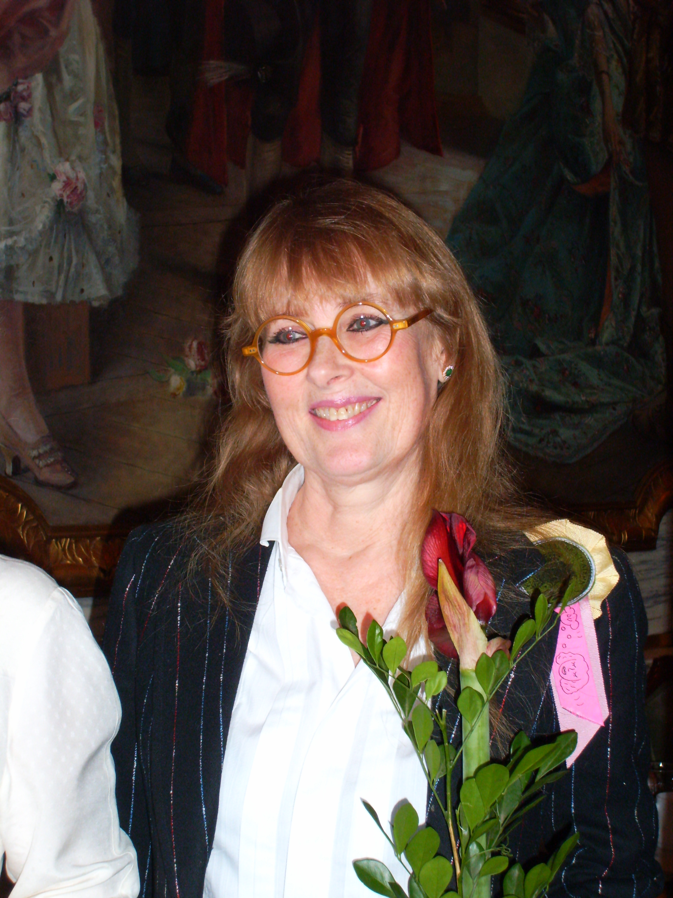 Marie-Louise Ekman, Swedish artist, sculptor and actress.